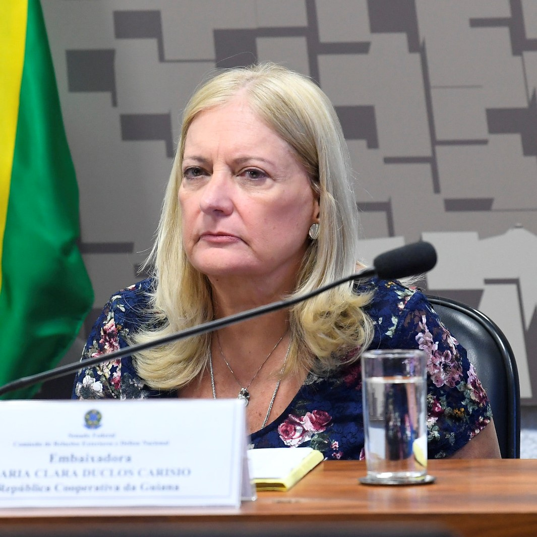 Brazilian Ambassador Maria Clara Duclos Carisio